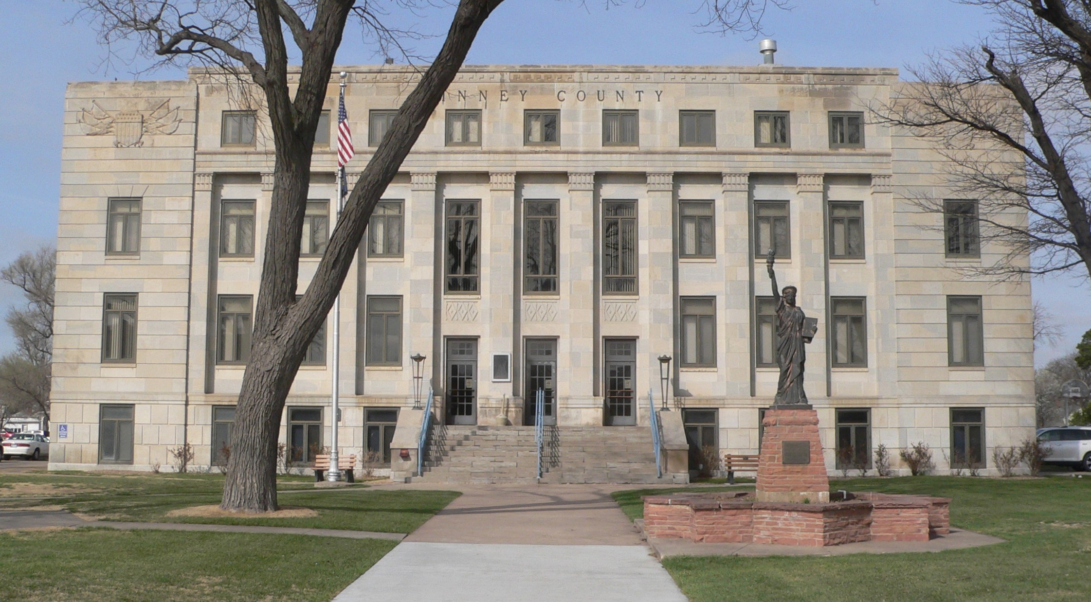 Finney County courthouse in Garden City, Kansas; seen from the east.